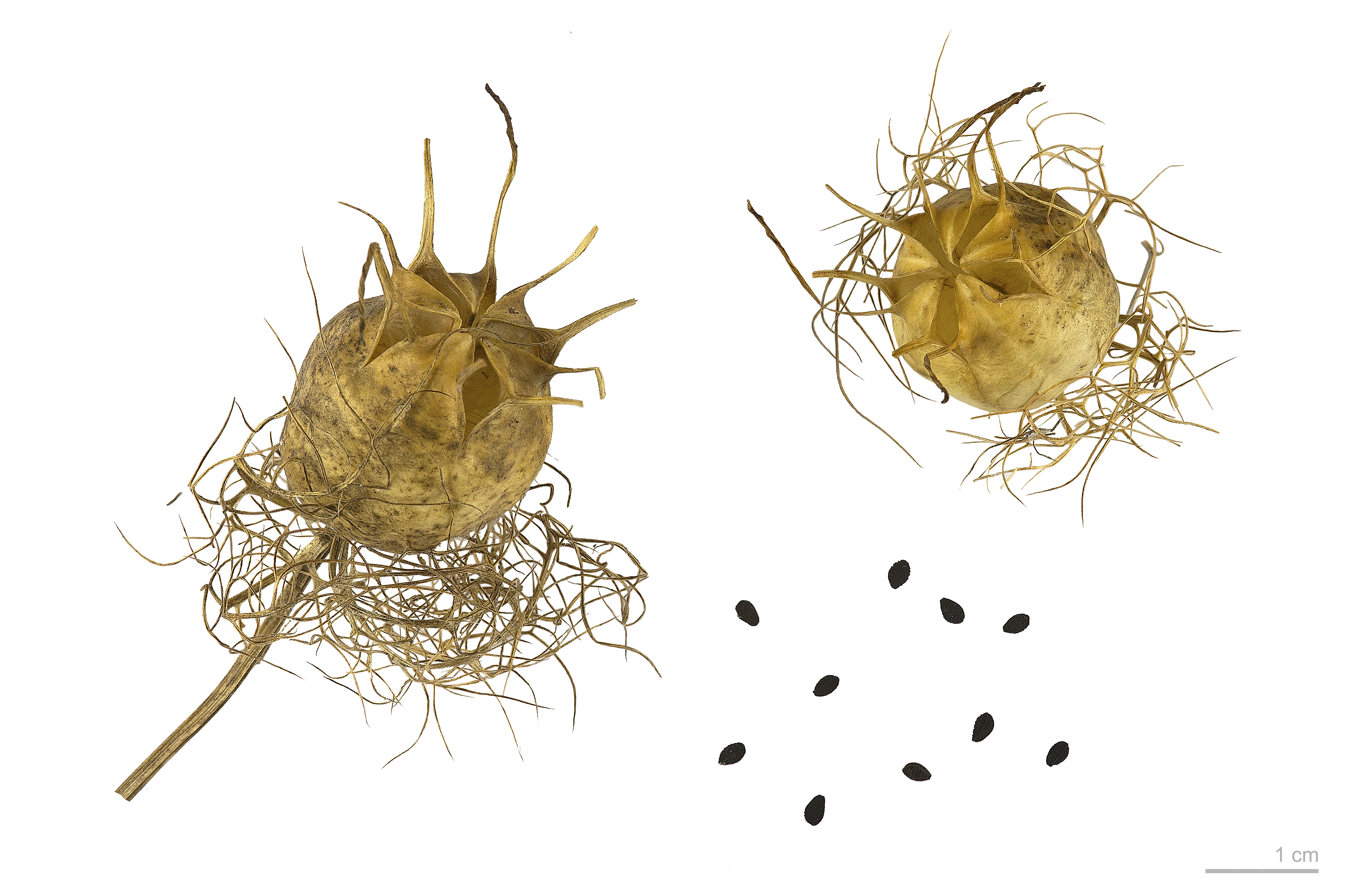 love-in-a-mist, fruits and seeds